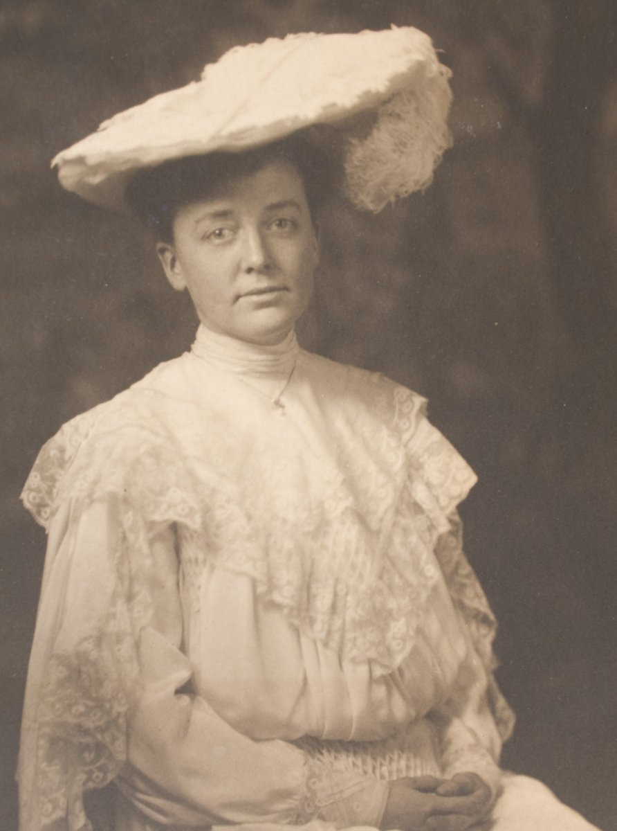 Portrait of the American violinist Lillian Shattuck (1857-1940).